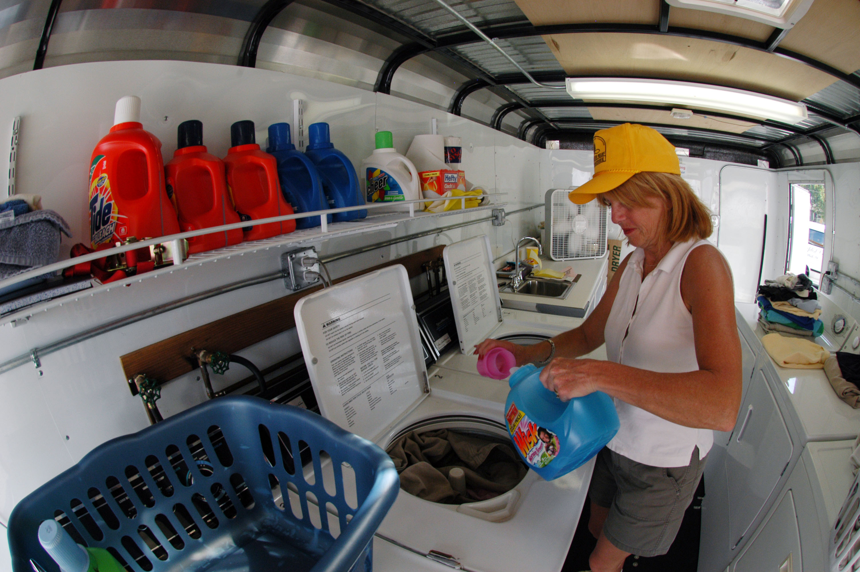 Atamore, AL, September 25, 2004--Jerrie Davis with the Southern Baptist Convention Disaster Relief services washes laundry for people affected by Hurricane Ivan. FEMA Photo/Jocelyn Augustino